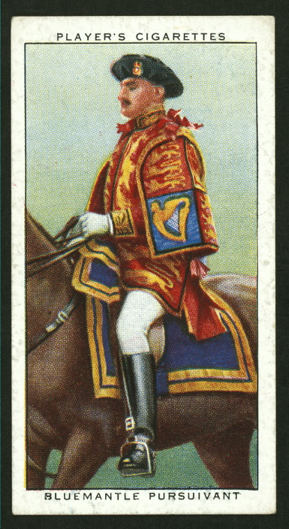 Player's cigarettes. Coronation series, ceremonial dress: Richard Graham-Vivian, the Bluemantle Pursuivant